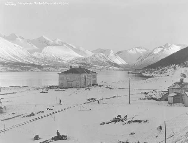 Åndalsnes railway station just after it opened in 1924; Rauma, Norway.